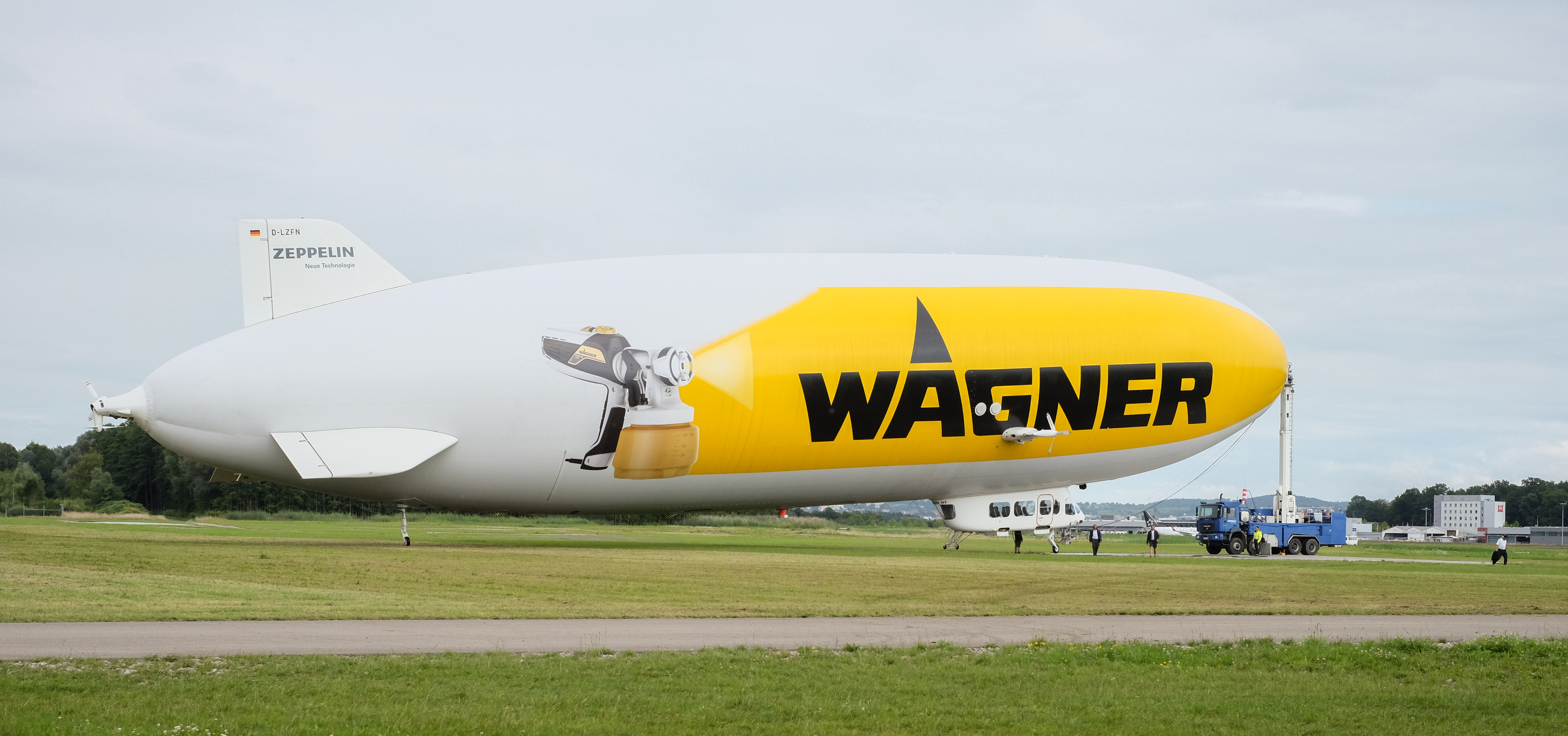 Airship D-LZFN Friedrichshafen, a Zeppelin NT, on the way back into the hangar, Friedrichshafen, district Bodenseekreis, Baden-Württemberg, Germany